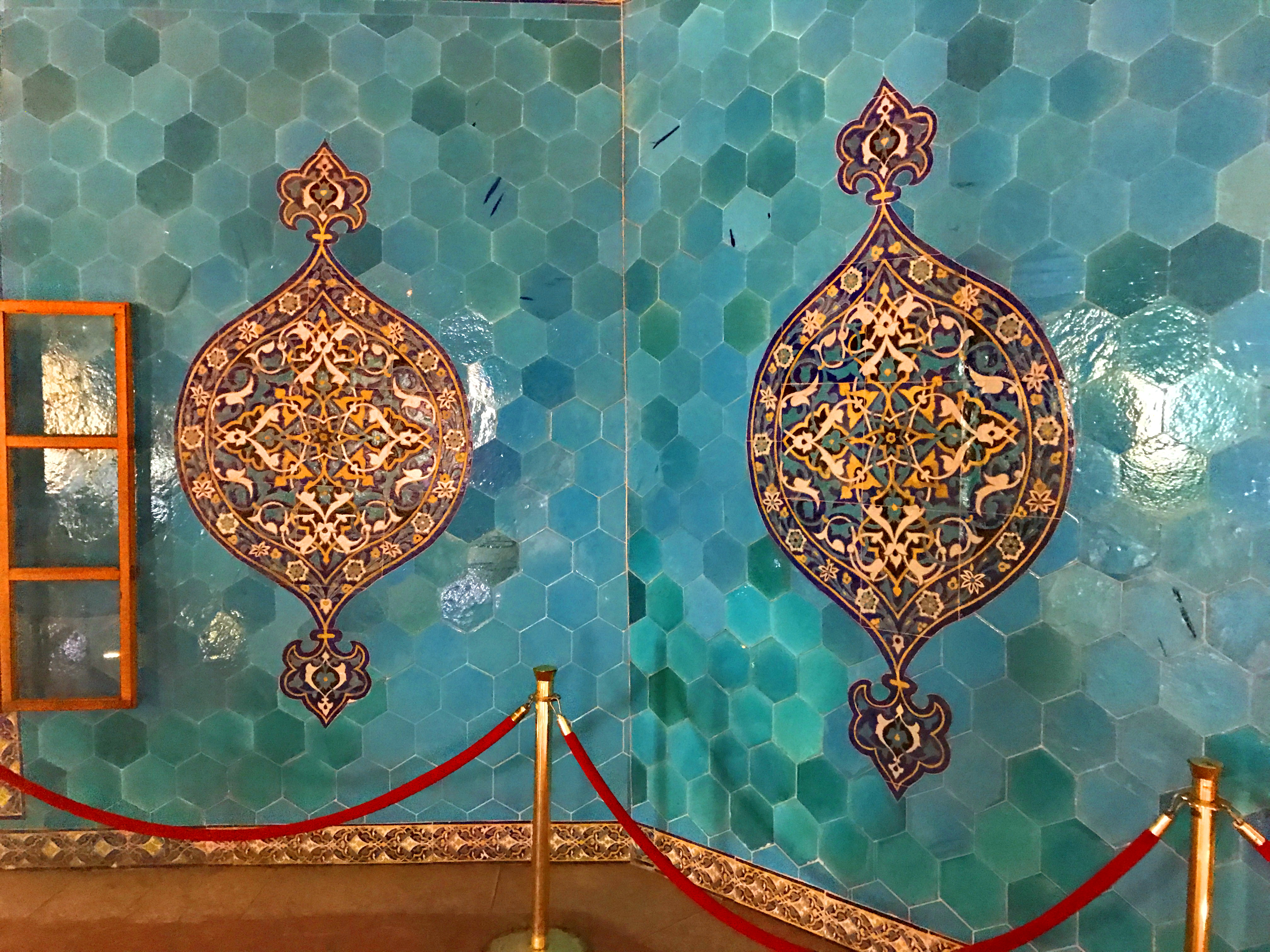 The Green Tomb (Yeşil Türbe) is a mausoleum of the fifth Ottoman Sultan, Mehmed I, in Bursa, Turkey. It was built by Mehmed's son and successor Murad II following the death of the sovereign in 1421. The architect, Hacı Ivaz Pasha designed the tomb and the Yeşil Mosque opposite to it